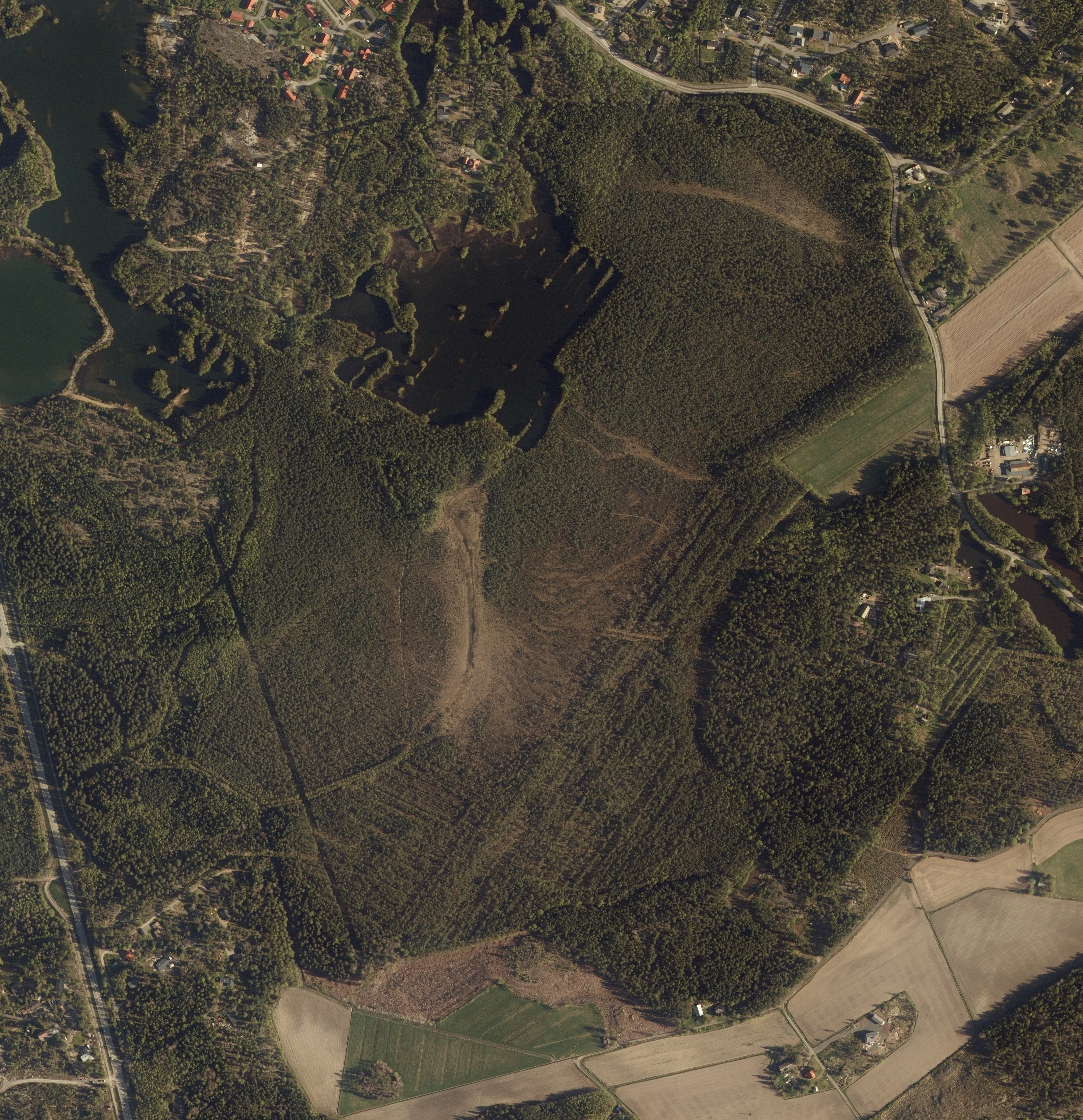 Ortho image of Karevansuo bog in Masku and Rusko, Finland. Image is cropped from larger National Land Survey of Finland's ortho image. Image source is Ortoilmakuva / väriorto / karttalehtitunnus: L3411H with last update 2015.